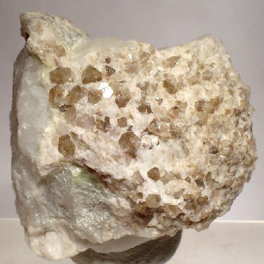 Zunyite, Quartz Locality: Big Bertha Mine (Veta Grande Mine; Veta Grande claim; Crystal Caverns claim; Big Bertha Extension Mine), Middle Camp-Oro Fino District, Dome Rock Mts, La Paz County, Arizona, USA (Locality at ) Glassy, translucent, gray-tan, pseudohexagonal (flattened octahedra) crystals to 3 mm of the rare silicate zunyite richly cover the nicely contrasting milky quartz matrix. Very minimal bruising, overall, to this very fine, rare specimen from the Big Bertha Mine, near Quartzsite, Arizona. 3.3 x 3.2 x 2.8 cm